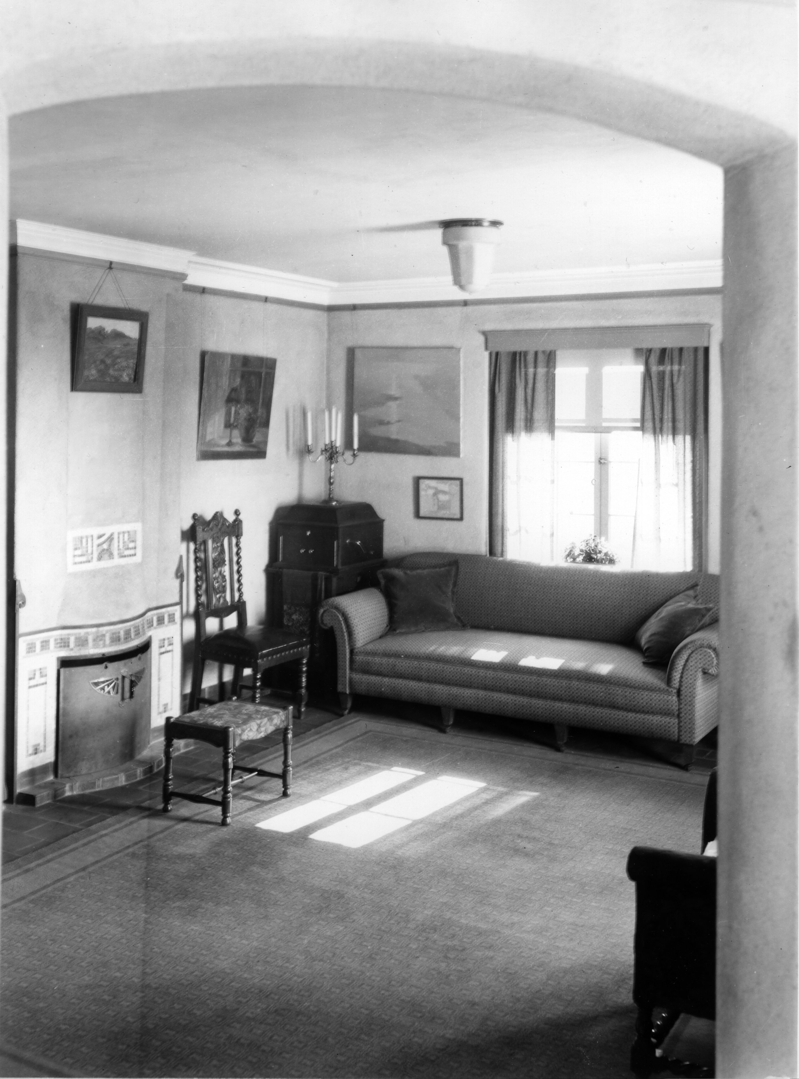 Collection: Human Ecology Historical Photographs Title: "Hidden Home" Ithaca, NY, designed by Helen Binkerd Young, graduate of Cornell's architecture program in 1900 and faculty member in the NYS College of Home Economics, 1910-1921. Collection #23-2-749, item M-H-I-03 Div. Rare & Manuscript Collections, Cornell University Library Persistent URI: There are no known U.S. copyright restrictions on this image. The digital file is owned by the Cornell University Library which is making it freely available with the request that, when possible, the Library be credited as its source.